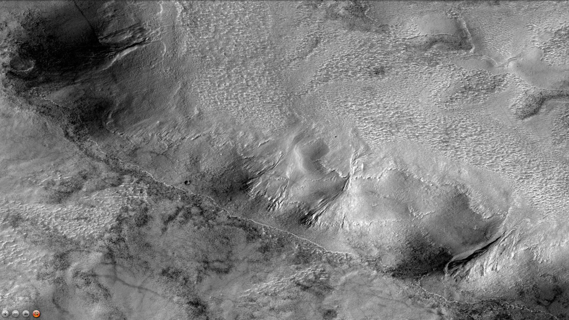 West side of Rossby Crater showing gullies, as seen by cts